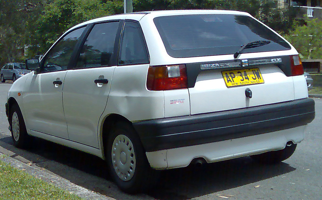 1995 SEAT Ibiza (6K) CLX 5-door hatchback. Photographed in Gymea, New South Wales, Australia.